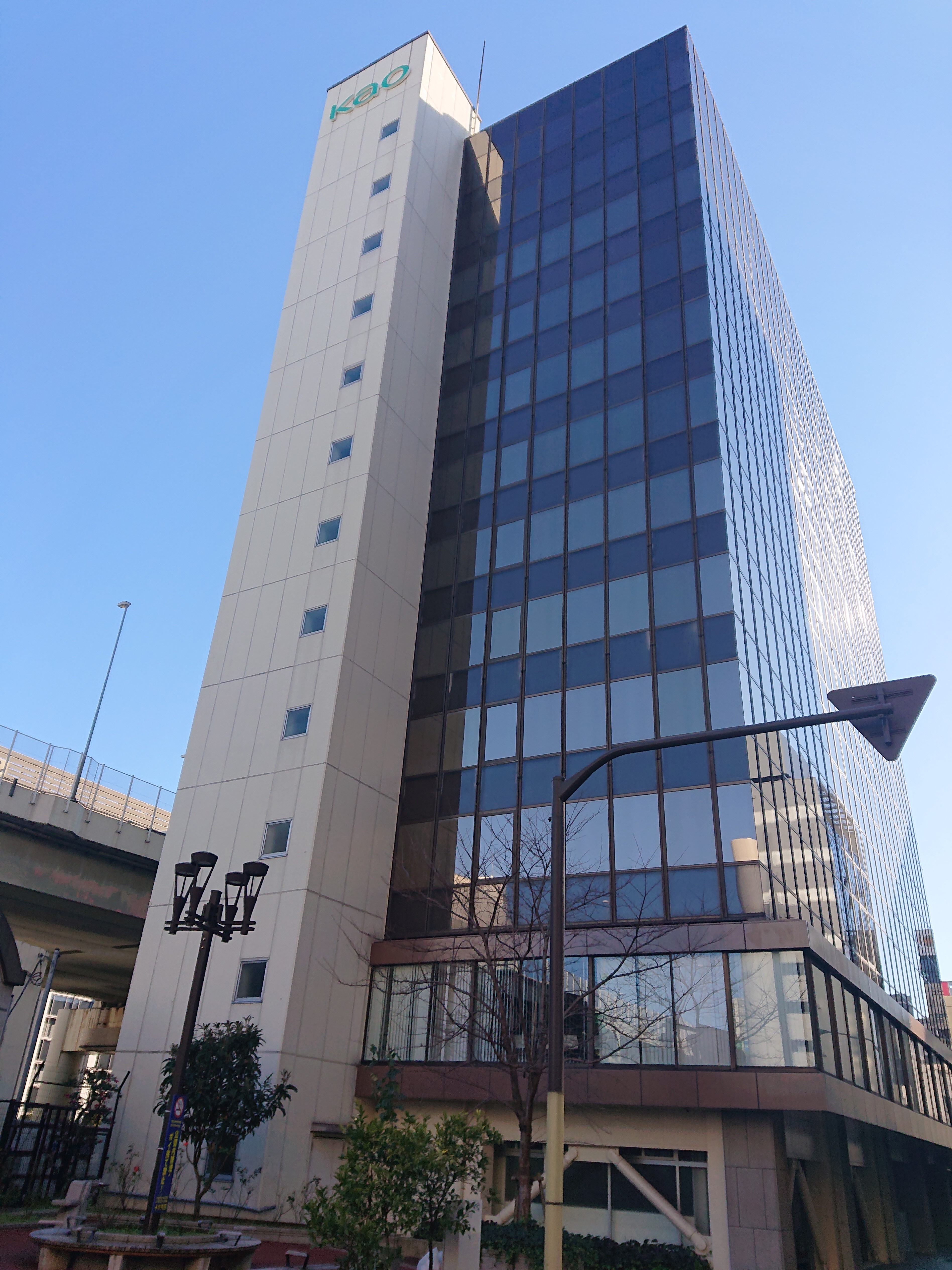 Shibusawa Building (澁澤ビル), located at 1-14-10 Nihonbashi-Kayabacho, Chuo, Tokyo, Japan